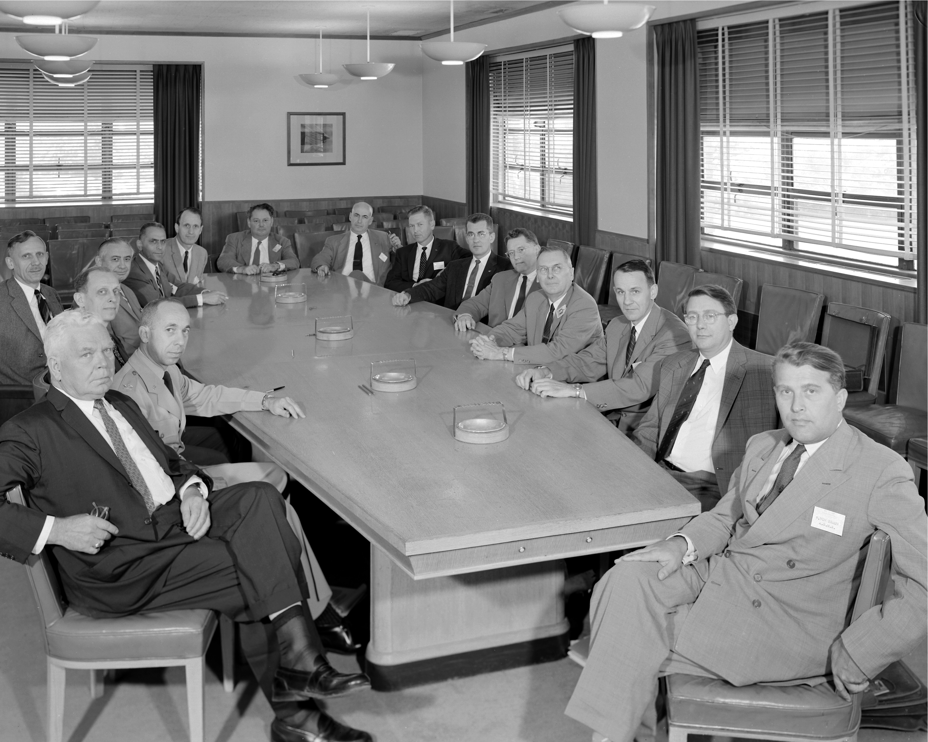 NACA's Special Committee on Space Technology, called the Stever Committee after its chairman, Guyford Stever, meets at Lewis, May 26, 1958. Left to right, Edward R. Sharp, Director of Lewis Laboratory; Colonel Norman C Appold, US Air Force, Assistant to the Deputy Commander for Weapons Systems, Air Research and Development Command: Abraham Hyatt, Research and Analysis Officer, Bureau of Aeronautics, Department of the Navy; Hendrik W Bode, Director of Research Physical Sciences, Bell Telephone Laboratories; W Randolph Lovelace II, Lovelace Foundation for Medication Education and Research, S. K Hoffman, General Manager, Rocketdyne Division, North American Aviation; Milton U Clauser, Director, Aeronautical Research Laboratory, The Ramo-Wooldridge Corporation, H. Julian Allen, Chief, High Speed Flight Research, NACA Ames, Robert R. Gilruth, Assistant Director, NACA Langley, J. R. Dempsey, Manager. Convair-Astronautics; Carl B. Palmer, Secretary to Committee, NACA Headquarters, H. Guyford Stever, Chairman, Associate Dean of Engineering, Massachusetts Institute of Technology, Hugh L. Dryden (ex officio), Director, NACA; Dale R. Corson, Department of Physics, Cornell University; Abe Silverstein, Associate Director, NACA Lewis; Wernher von Braun, Director, Development Operations Division, Army Ballistic Missile Agency.